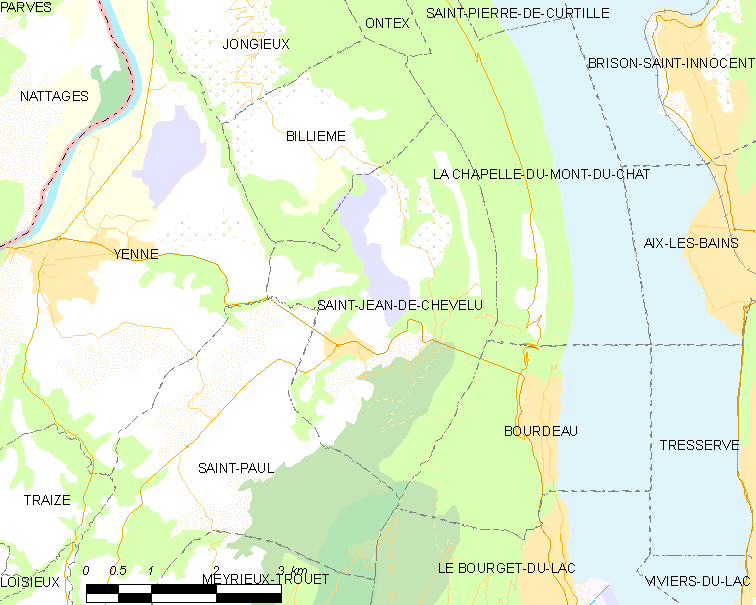 Map of French municipality